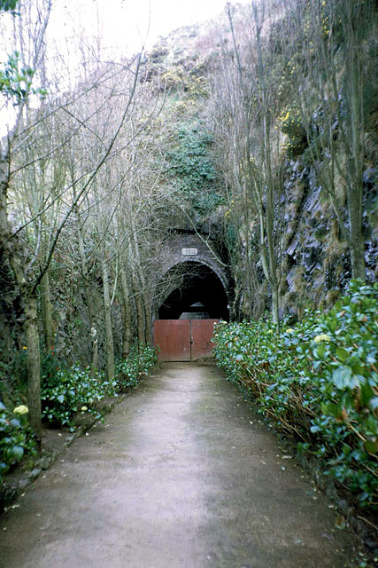 Old Jersey Railway tunnel, St Aubin, 1967. Opened in 1898 (as on keystone) as an improvement on the old route here, it was closed for German military purposes in WWII.